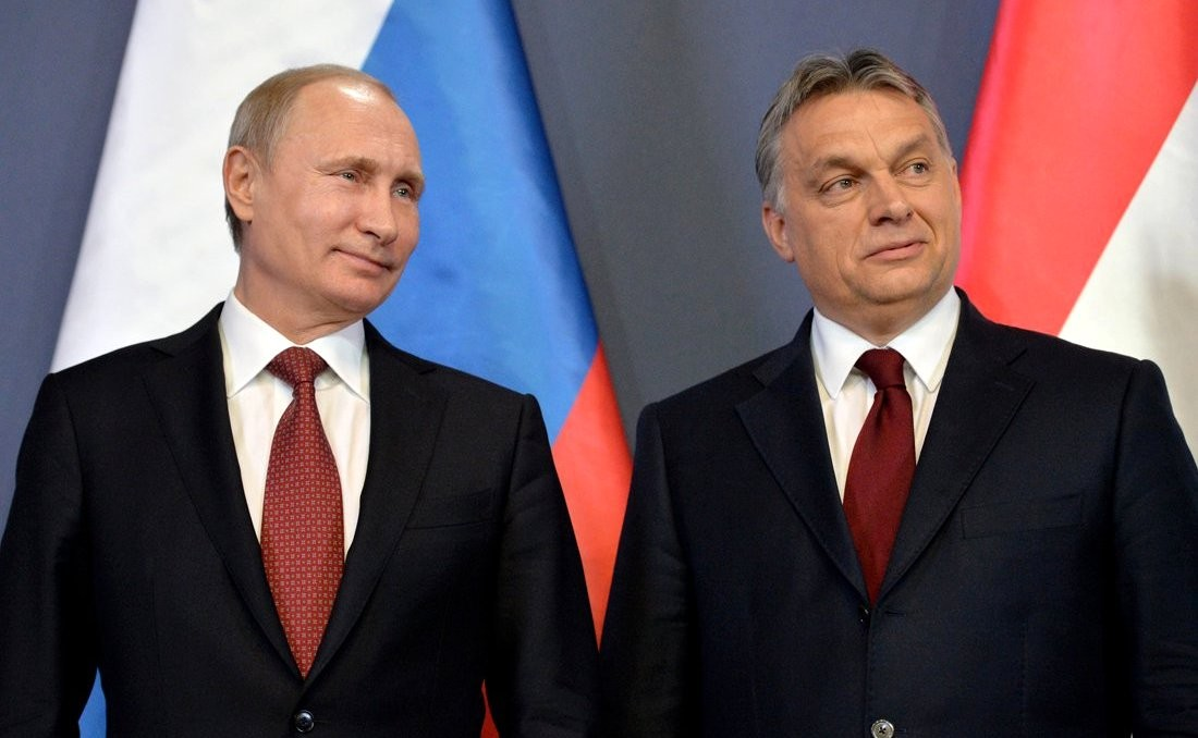 Vladimir Putin with PM Viktor Orbán on a visit to Hungary in February 2015